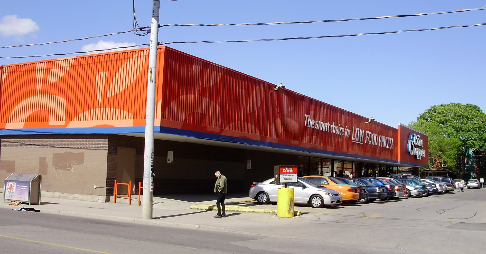 A Price Chopper grocery store at Gladstone & Queen in Toronto, Canada.